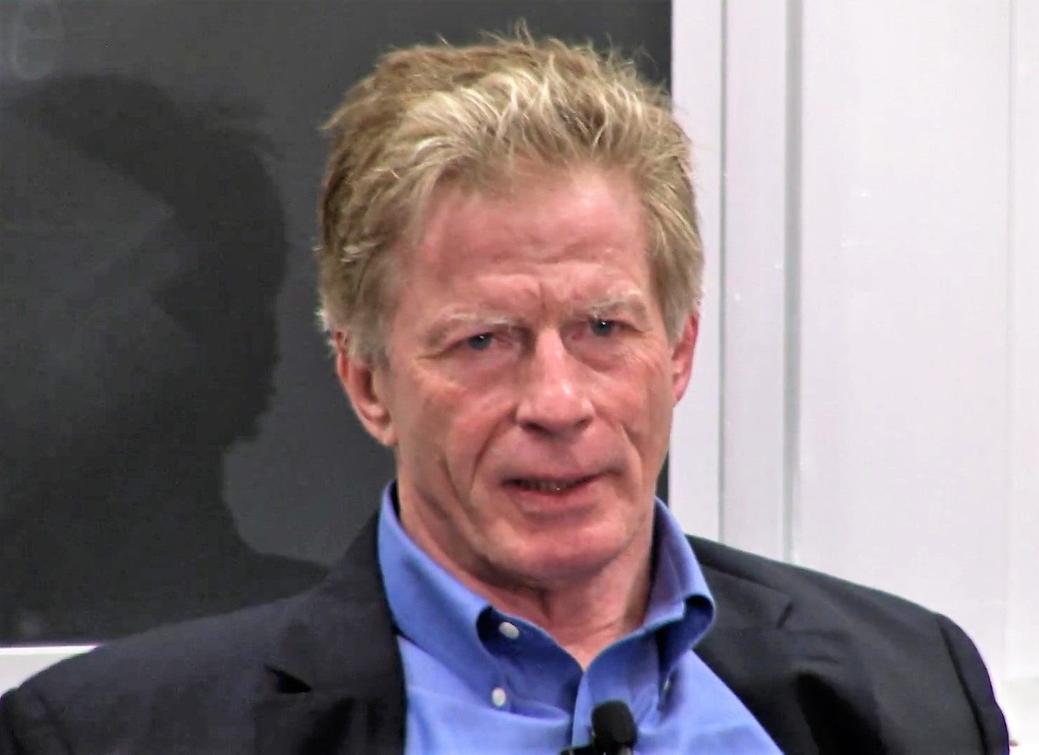 Republican Resistance in the Age of Trump Stuart Stevens believes Republicans are in a “GOP apocalypse,” and he’s urging Republicans to resist. Stevens is a Republican political consultant who’s worked on presidential campaigns for Bob Dole and George W. Bush, served as the lead strategist for Mitt Romney’s 2012 presidential campaign, and helped elect more governors and US Senators than any other GOP consultant working today. He’s also an outspoken critic of Donald Trump, starting from the earliest days of Trump’s candidacy. Jennifer Nassour, founder of Conservative Women for a Better Future, and Dr. Daniel Barkhuff, president of Veterans for Responsible Leadership, a group promoting “integrity, sobriety, and civility” in government, joined Stevens to discuss the future of the GOP, how Donald Trump has influenced the American political system, and predictions for the 2018 midterm and the 2020 presidential elections.